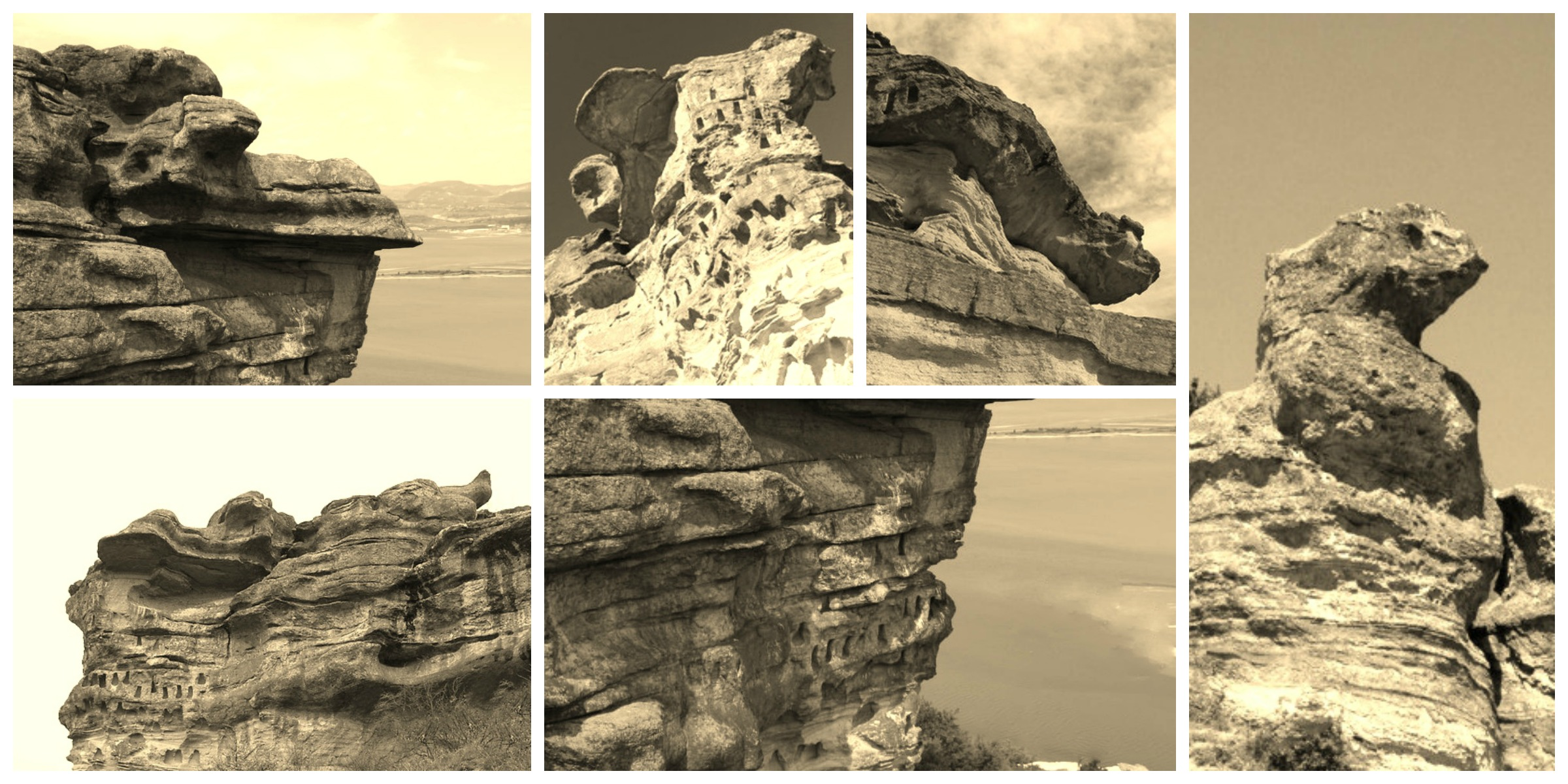 Chit Kaya Lisicite BG